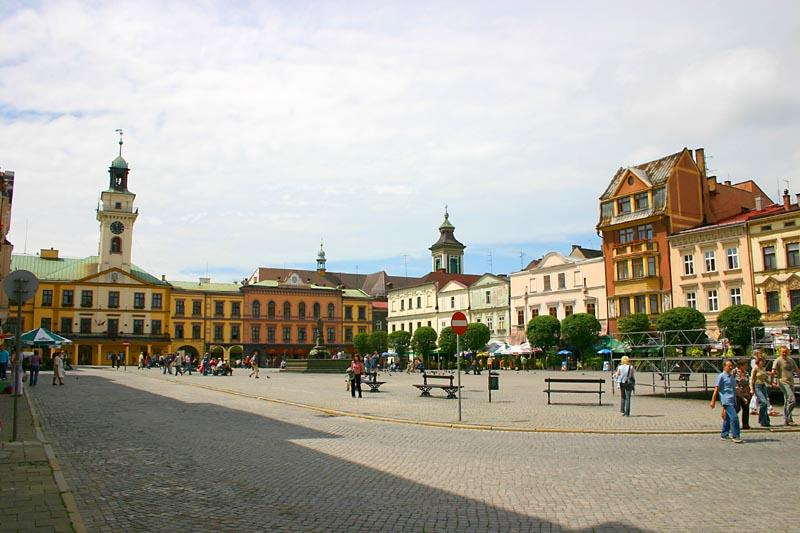 Main Market Square (Rynek) in Cieszyn, Poland